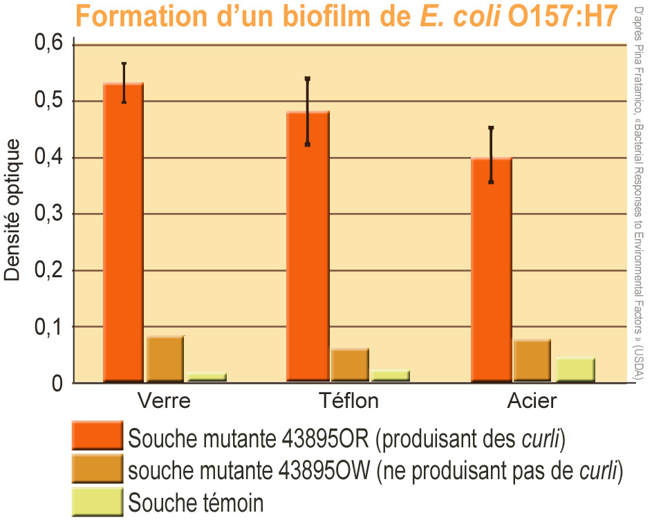 Biofilm formation of E. coli O157:H7 strains 43895OR (OR; curli-producing) and 43895OW (OW; non-curli-producing) on glass, Teflon, and stainless steel surfaces.